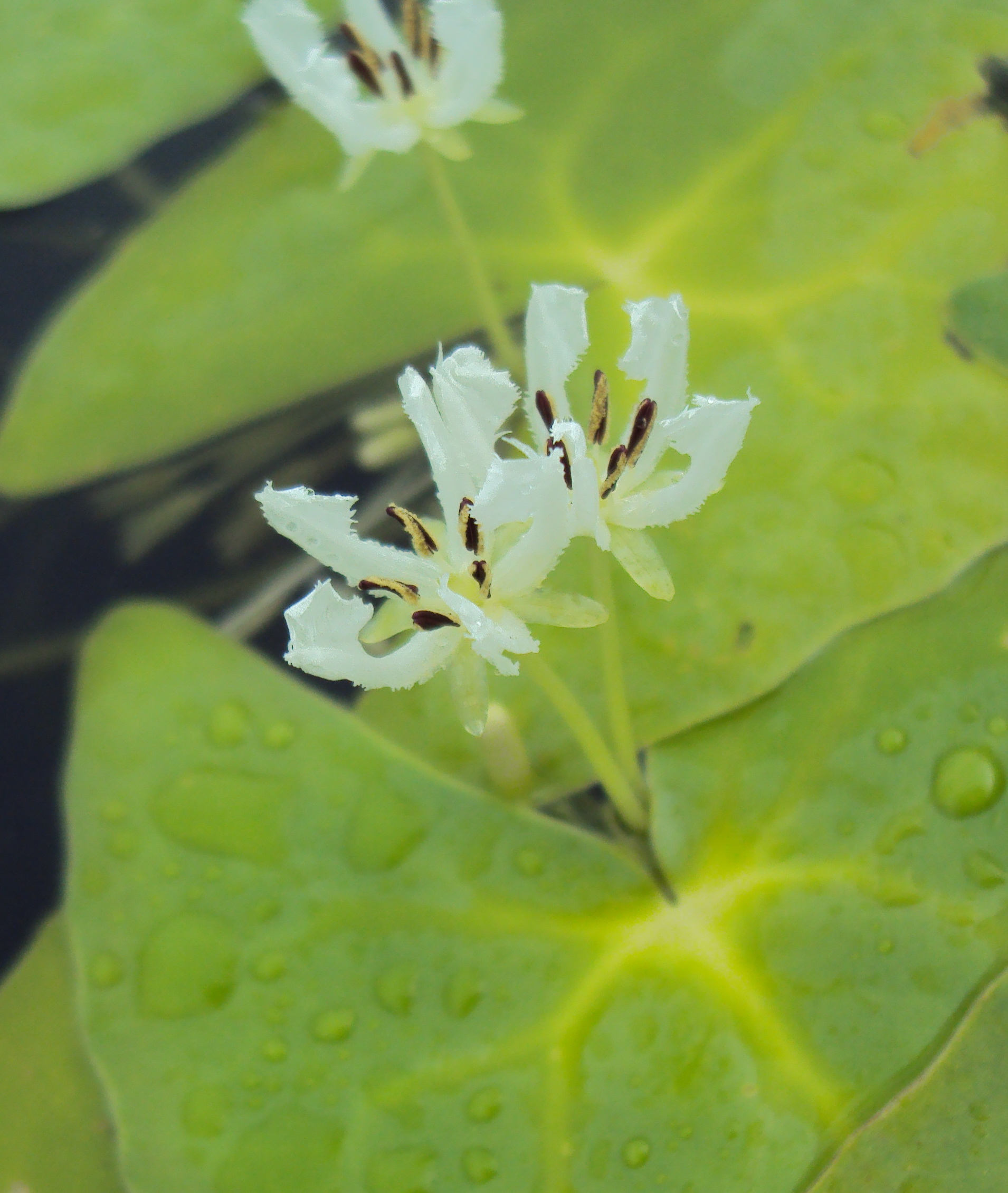 Nymphoides krishnakesara